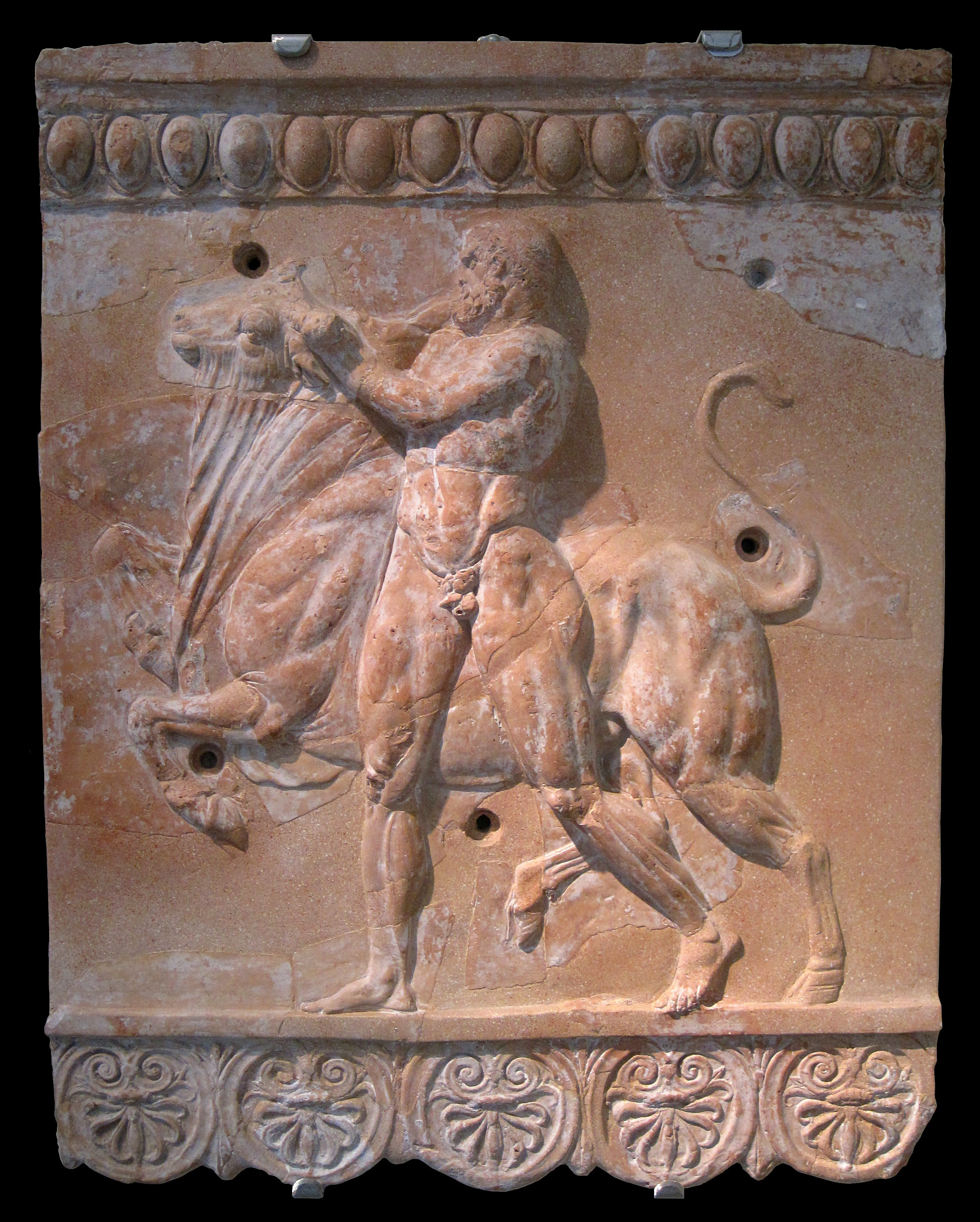 Architectural terracotta plaque (so-called Campana plaque) representing Hercules capturing the Cretan bull, discovered in 1828 in Quadraro (Roma Vecchia). - Accession number: 14477 - Room XV of the Gregorian Etruscan Museum (Vatican Museums).